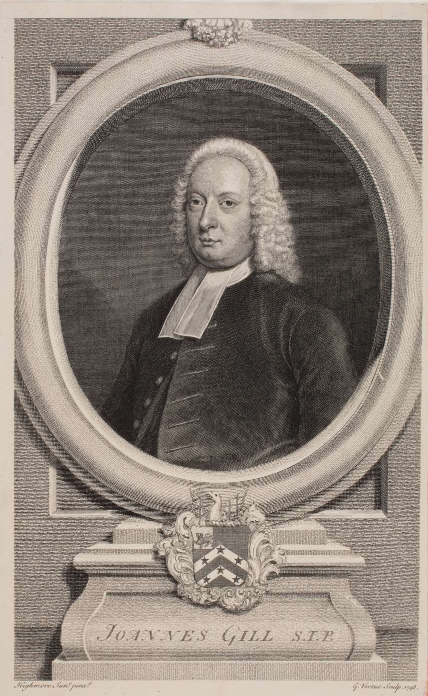 Portrait of John Gill